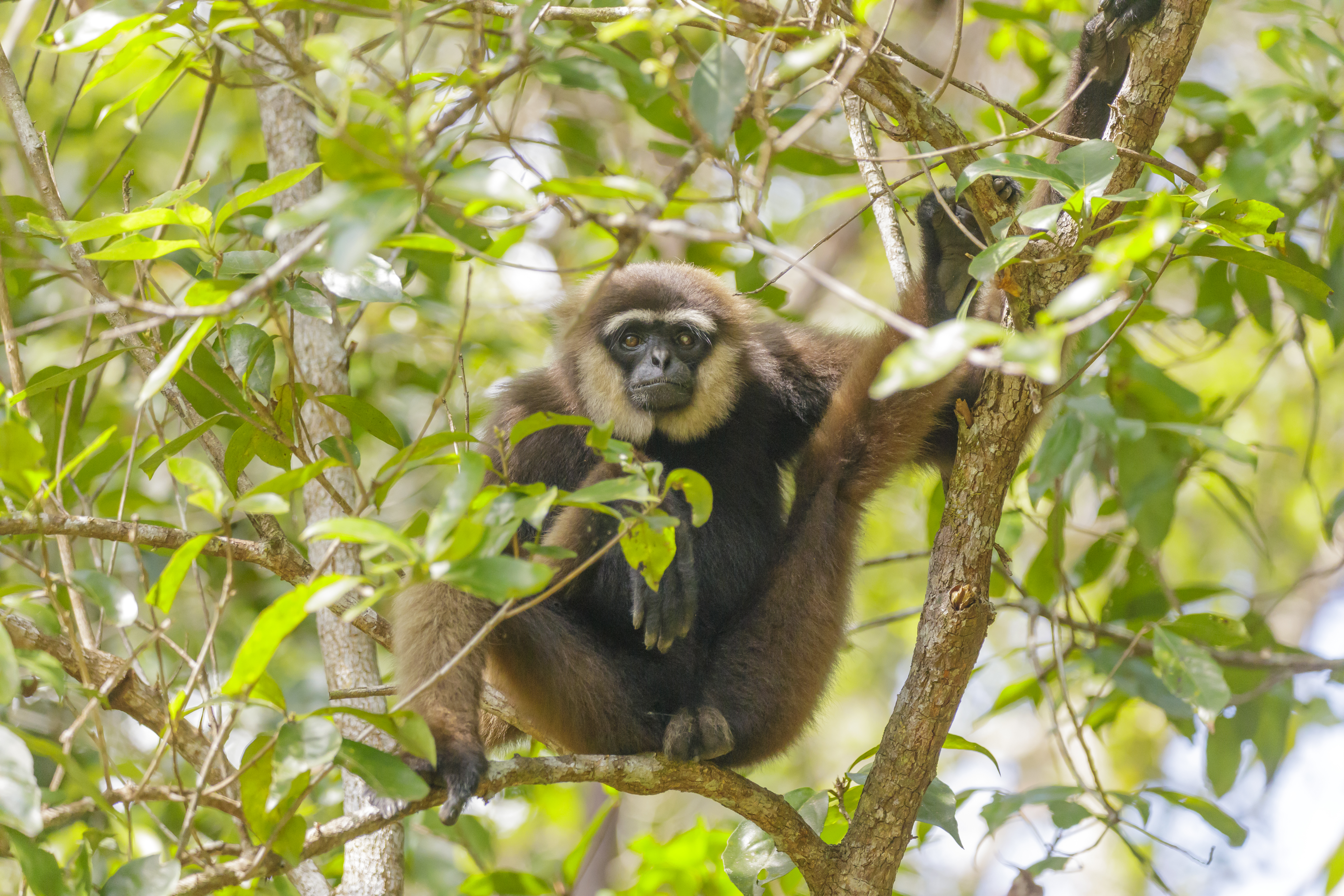 Bornean white-bearded gibbon, (Hylobates albibarbis) - Tanjung Puting National Park - taken during a photo trip to Indonesia in 2018 - taken by Thomas Fuhrmann, SnowmanStudios - see more pictures on / mehr Aufnahmen auf